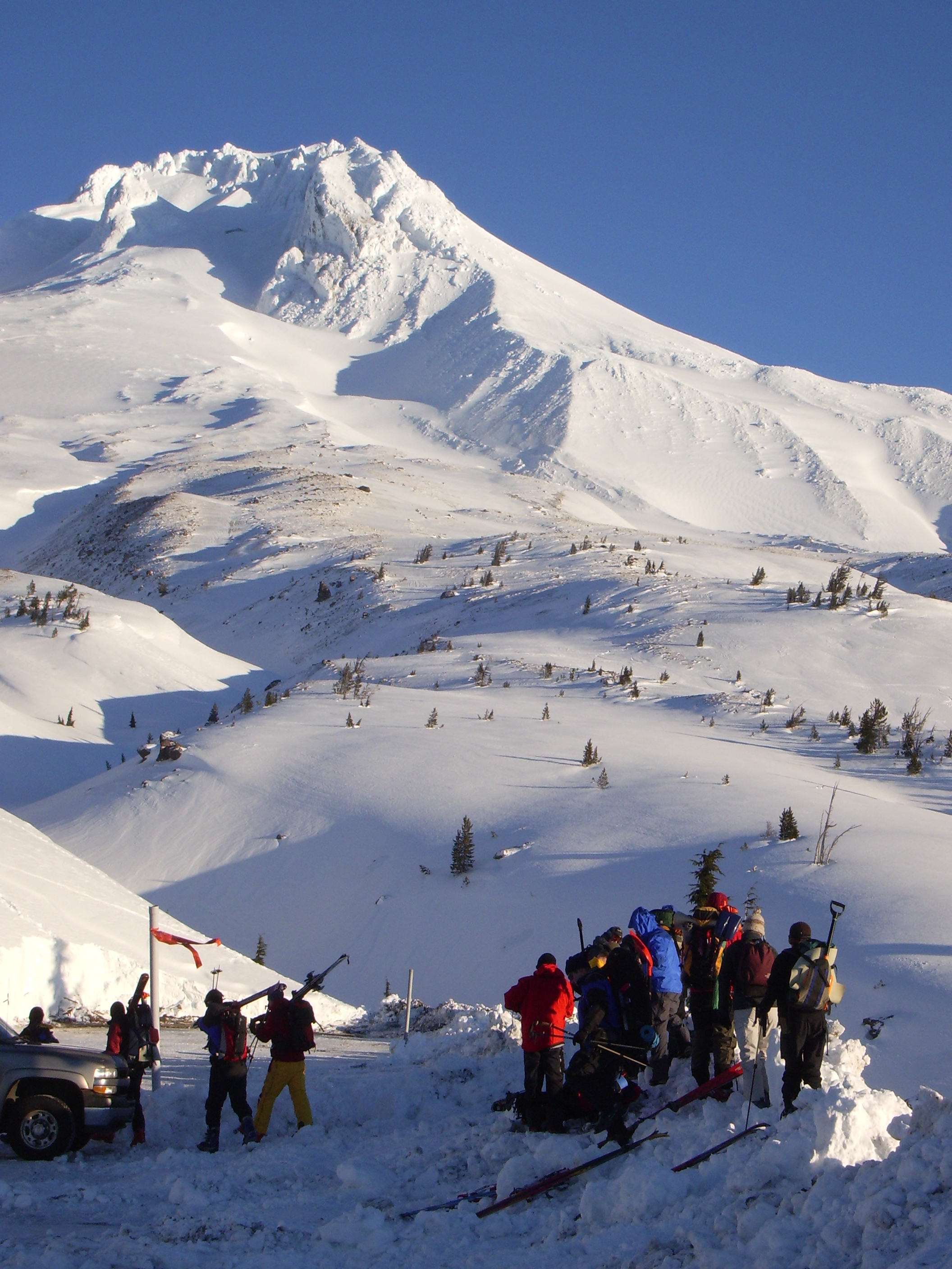 A search and rescue team deploys from Timberline Lodge to search for three missing climbers Sunday, December 172006—the second of five days of good searching weather. More than 88 searchers scoured Mount Hood this day; a few hours later, the body of James Kelly was found near the summit. No sign of the location of other two was found.